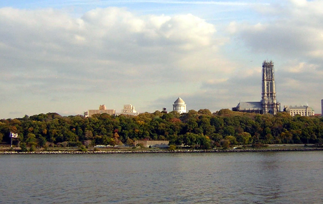 Morningside Heights from a Circle Line Sightseeing Cruises boat in the Hudson River, showing Grant's Tomb and Riverside Church.